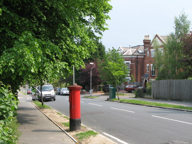 Hermitage Road, A Victorian street in an affluent part of Upper Norwood, South London, UK (Part of) Hermitage Road, SE19